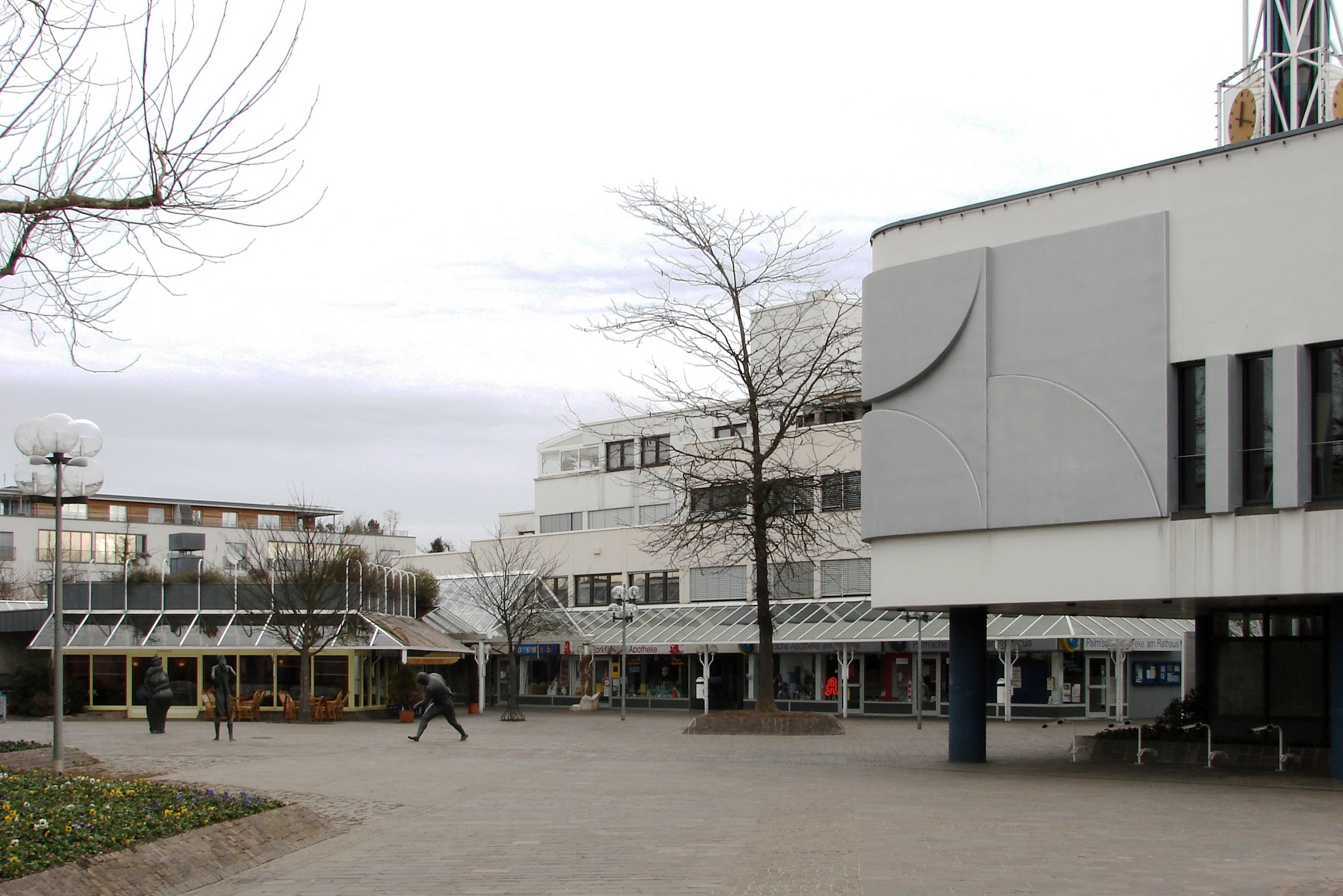 Freiberg am Neckar, market place and town hall (right handside)